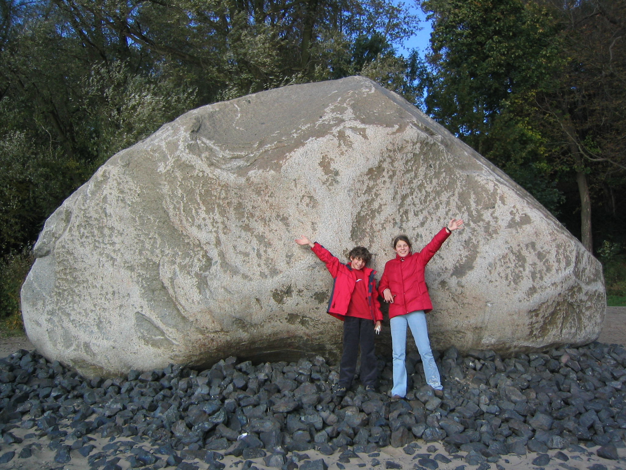 Glacial erratic, remnant from the ice age; located at the river Elbe in Hamburg, Germany; named Alter Schwede